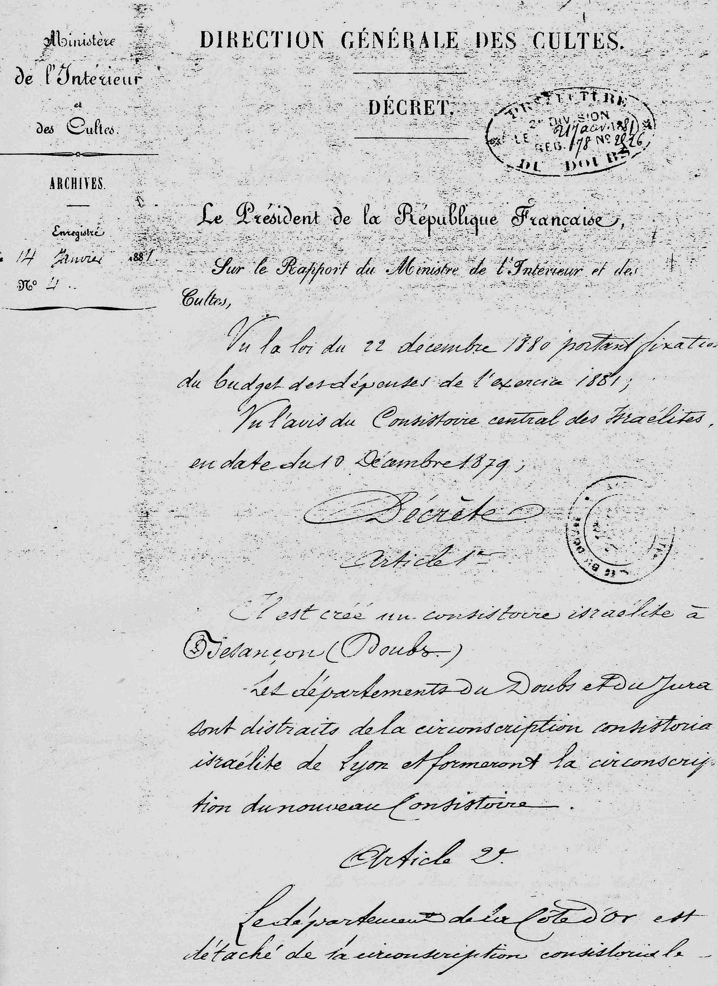 Order for authorize the creation of a Israelite Consistory in Besançon (Doubs, France).